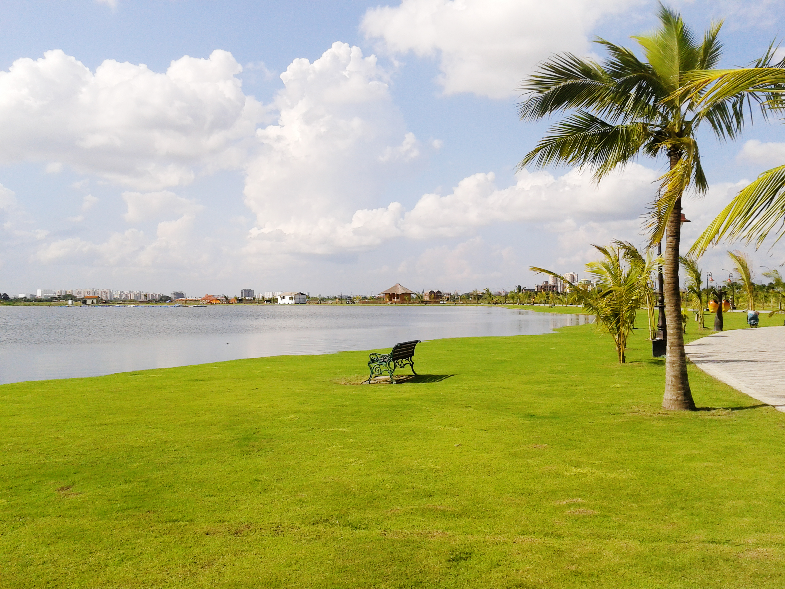 amazing carpet of green grass through out the park